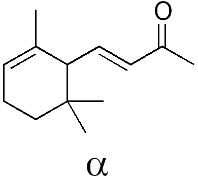 chemical structure of alpha-ionone